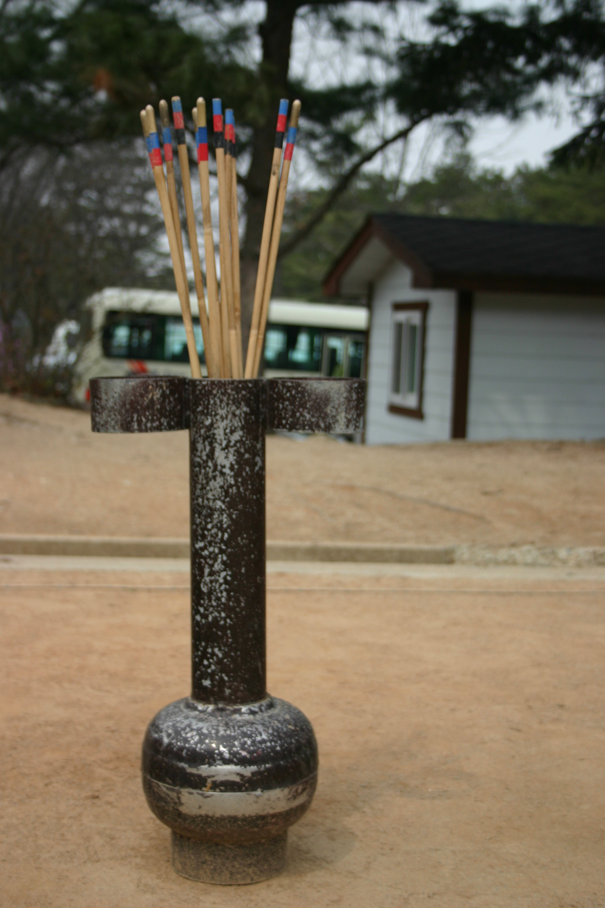 Tuho (투호), Korean traditional play with arrows like dart game